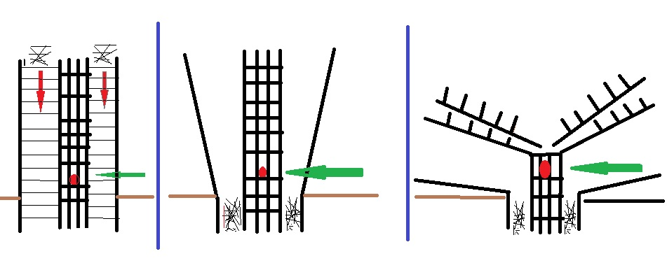 Miracle of stairway B.